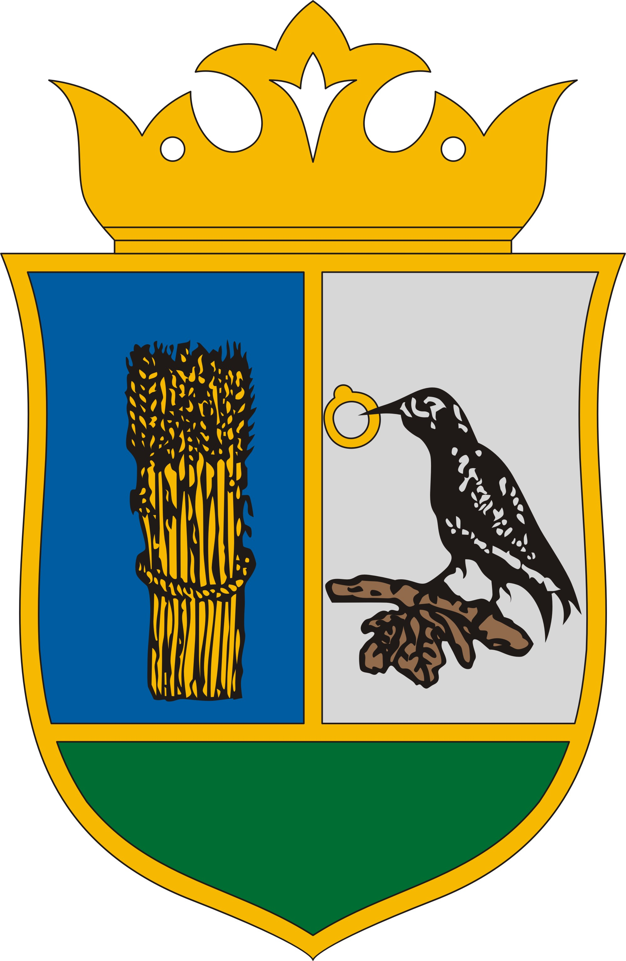 Coat of arms of Nemesrempehollós, Hungary